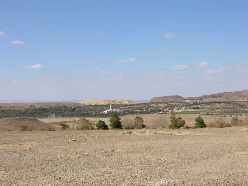 Neot Semadar, outside